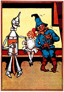 A color illustration by John R. Neill, from Ozma of Oz (1907). Now out of copyright.